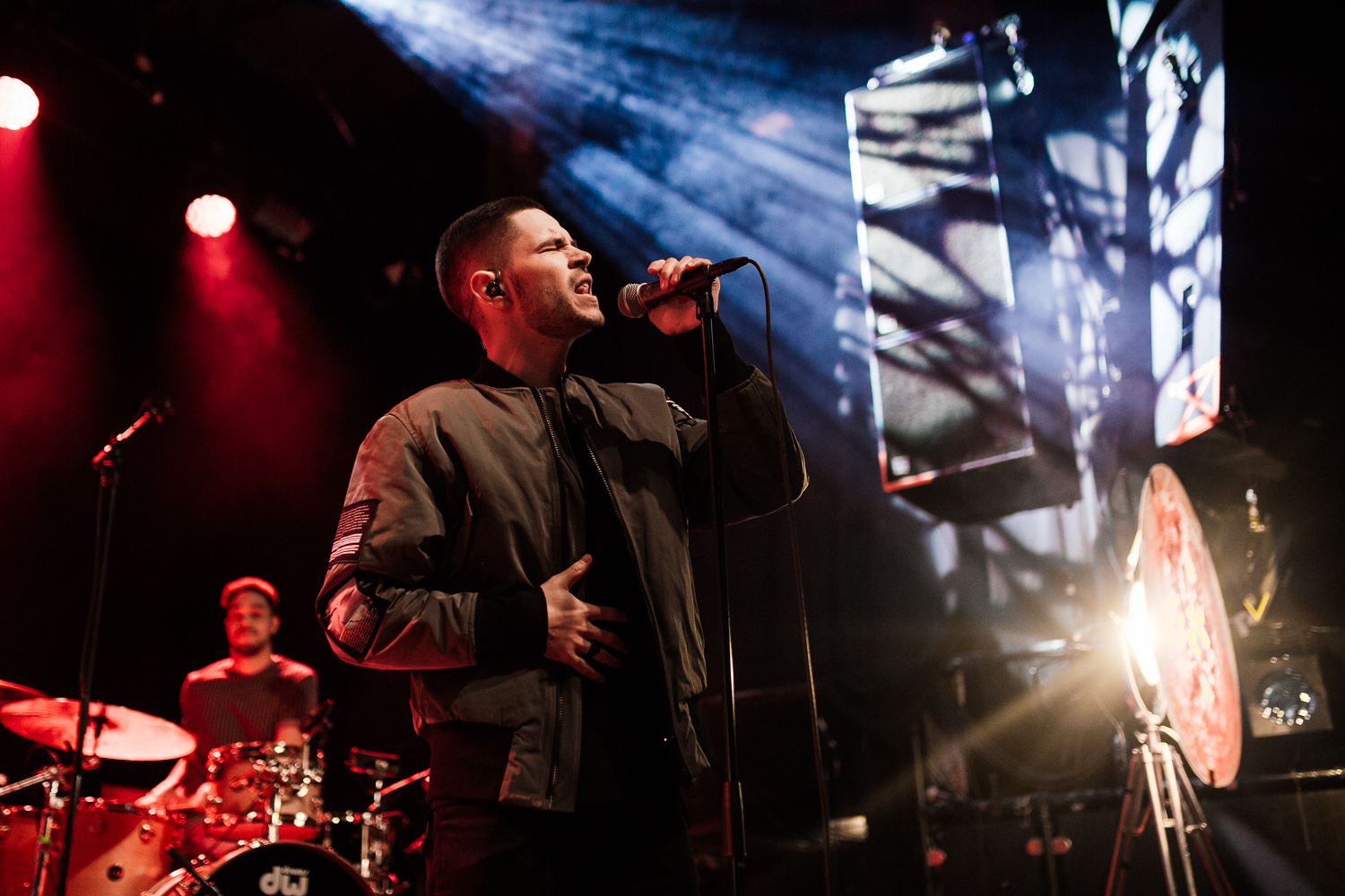 Chirs Holsten performing with Madden at by:Larm 2017